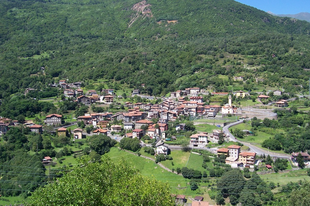 Novelle from Grevo, Val Camonica